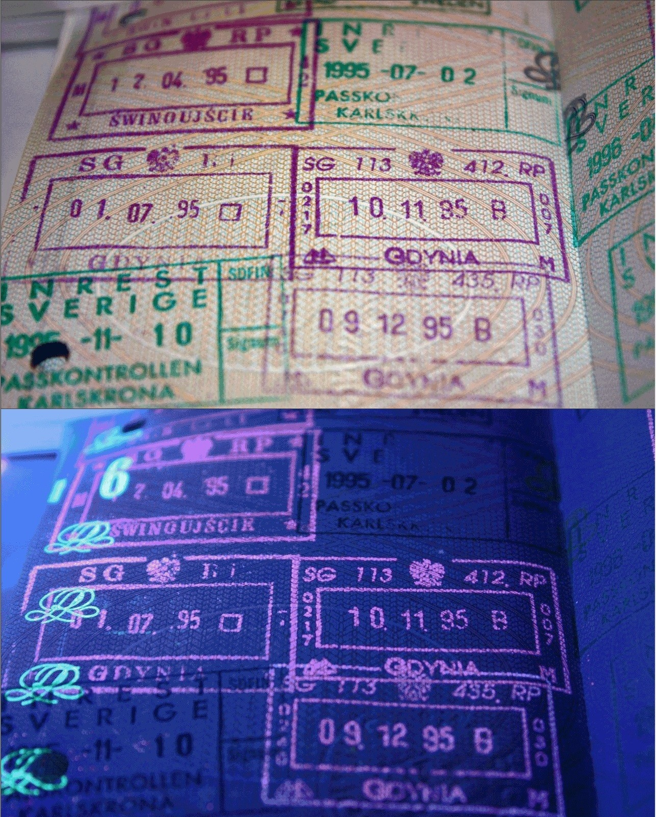 Old Polish passport with stamps in white light (top) and ultraviolet light (bottom)